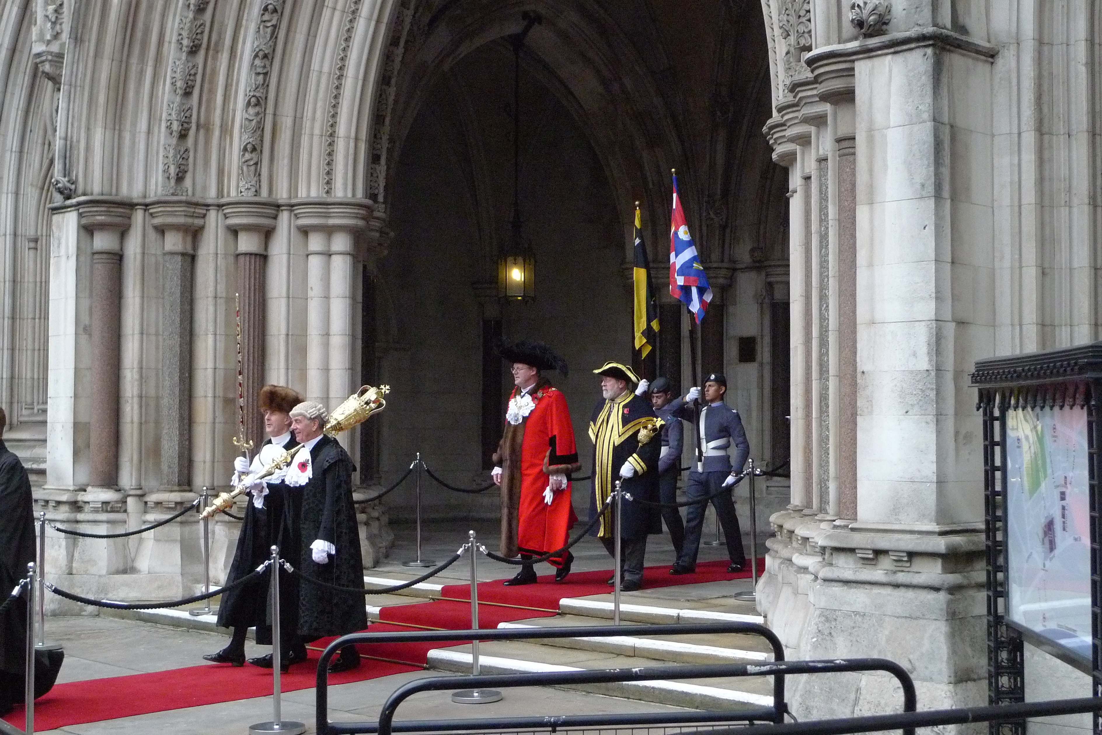 Lord Mayor David Wotton and some of his entourage emerging from the Royal Courts of Justice, at the end of half-time during the Lord Mayor's Show, November 2011. Photo taken by Rodolph de Salis, November 12 2011Rodolph (talk) 01:21, 17 November 2011 (UTC)